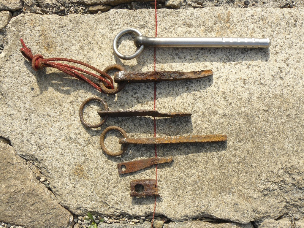 modern "ring" and old rusty "rings" and pittons